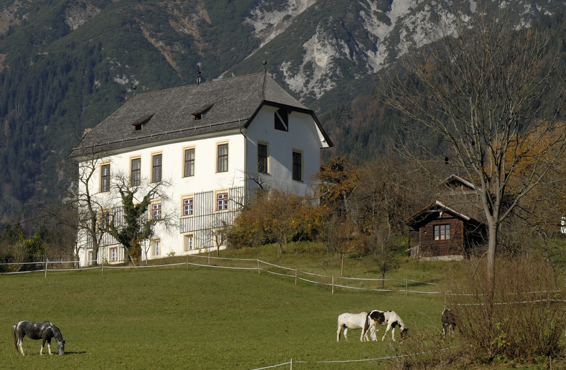 Madleinhof in Thaur This media shows the remarkable cultural object in the Austrian state of Tyrol listed by the Tyrolean Art Cadastre with the ID 2366. (on tirisMaps, pdf, more images on Commons, Wikidata)